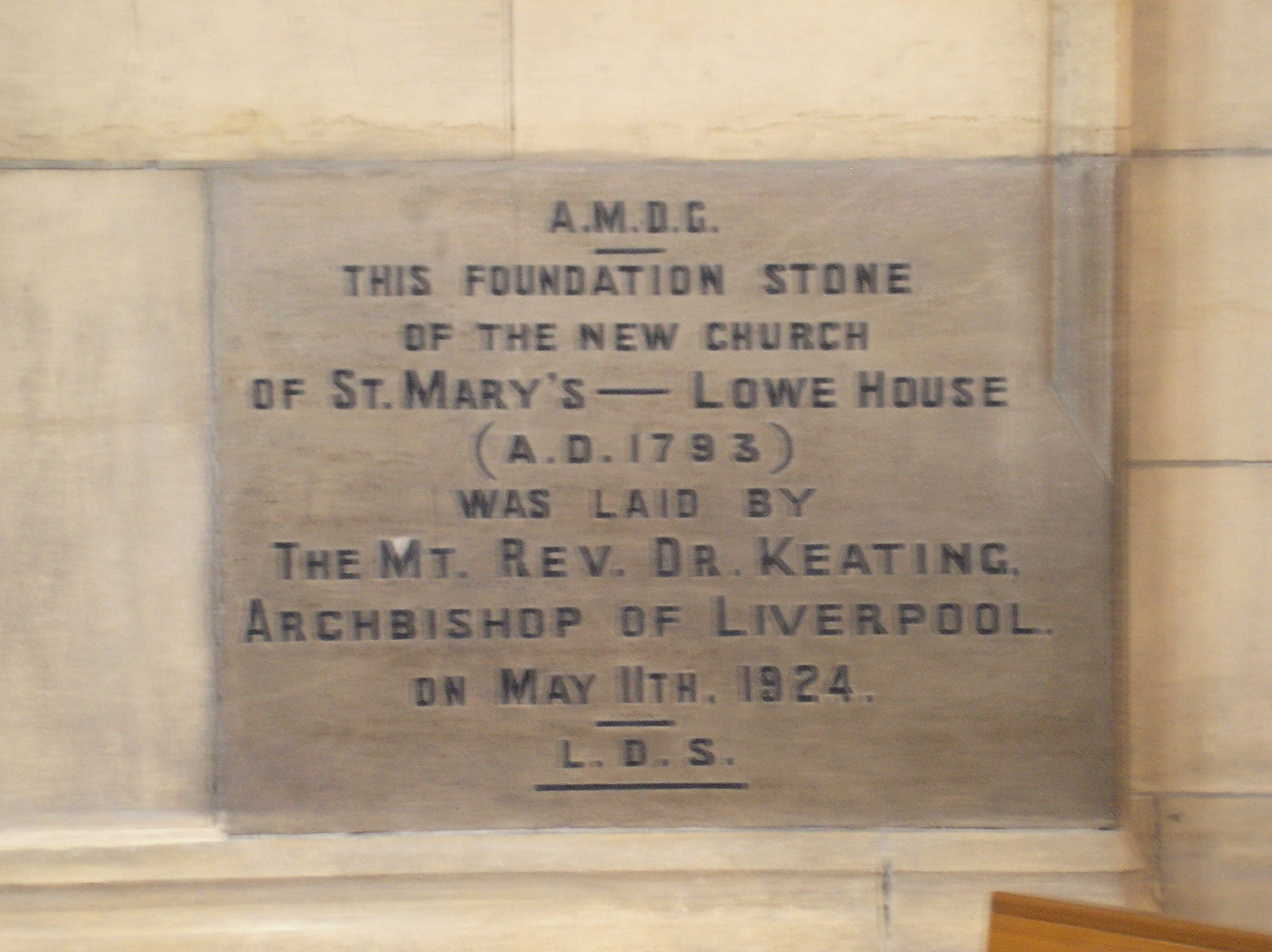 Photo of Foundation memorial stone of St Mary's Church, Lowe House, St Helens